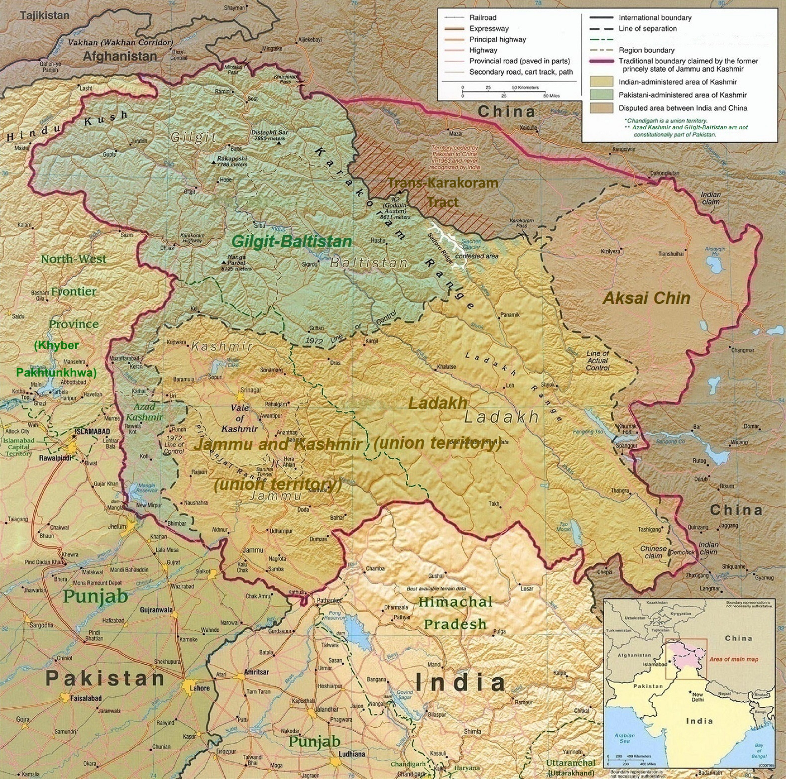 A map of the disputed region created by the US Central Intelligence Agency and hosted by the University of Texas-Austin Perry-Castañeda Library Map Collection; altered to show new jurisdictions,[1][2][3][4] by Fowler&fowler (talk) 06:29, 14 November 2019 (UTC)